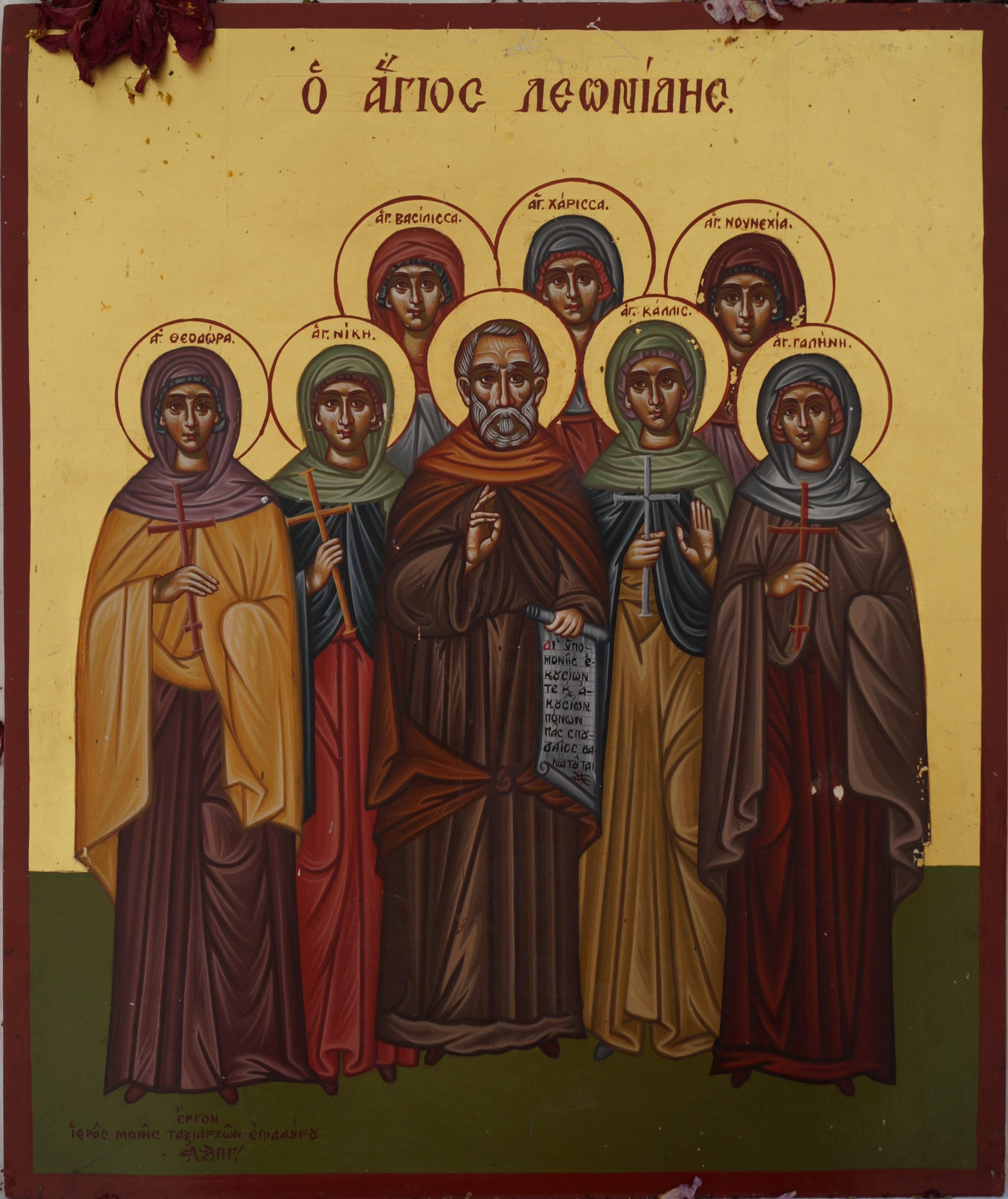 Dimaina, Argolida, Greece: Icon of Leonides of Trizina in the Saint Leonidas church of Dimaina. It shows Saint Leonides of Trizina with the woman martyrs Theodora, Niki, Vasilissa, Charissa, Callis, Nounechia und Galini.